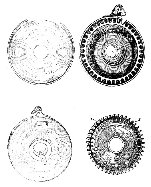 Blume 5.6 mm training machine gun magazine